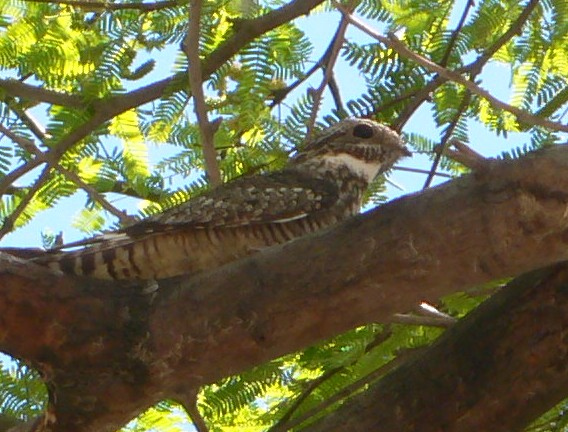 A Lesser Nighthawk at Sonny Bono National Wildlife Refuge, California